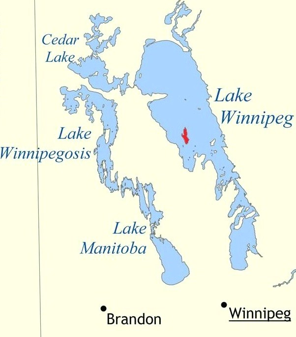 Map highlighting the location of Reindeer Island, in Lake Winnipeg, Manitoba, Canada.